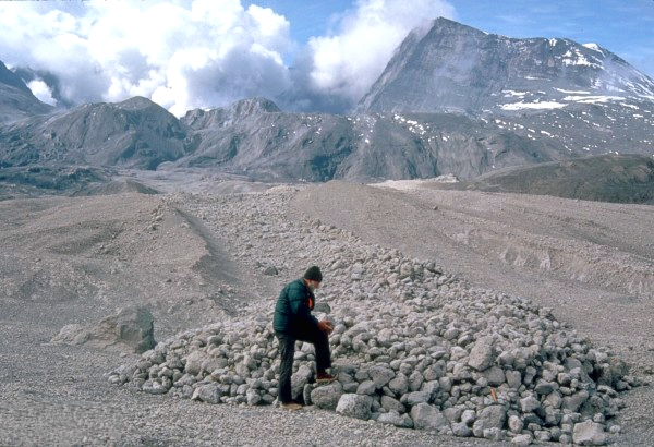 U.S. Geological Survey scientist examines pumice blocks at the edge of a pyroclastic flow from the May 18, 1980 eruption.